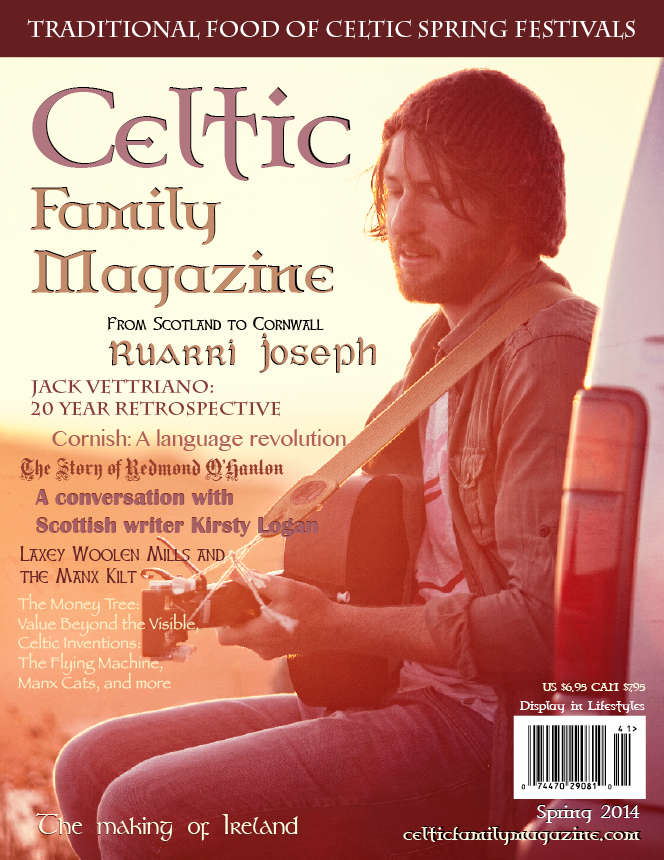 Spring 2014 Issue of Celtic Family Magazine featuring Ruarri Joseph on its cover